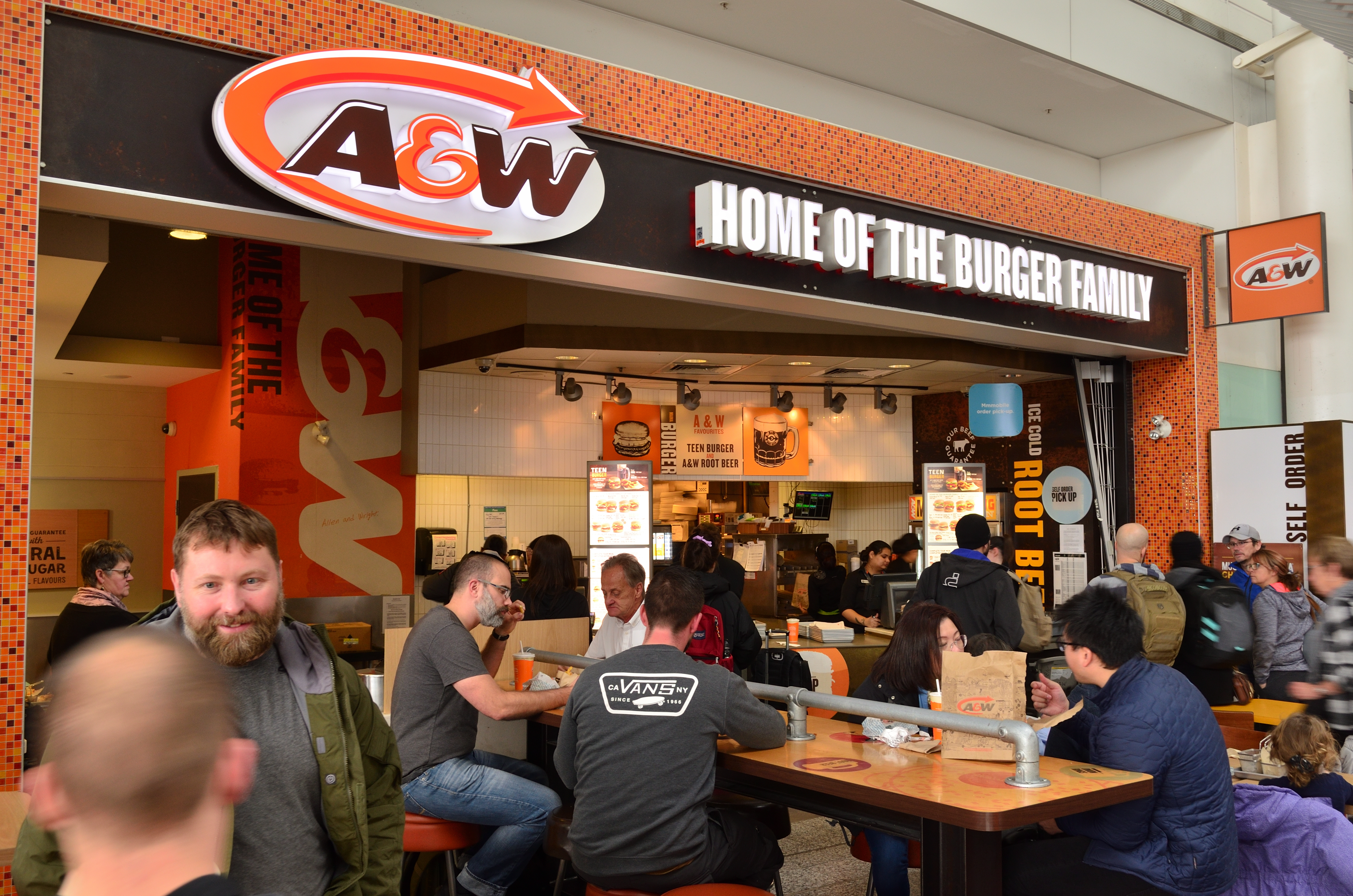 A&W at Toronto Pearson Airport